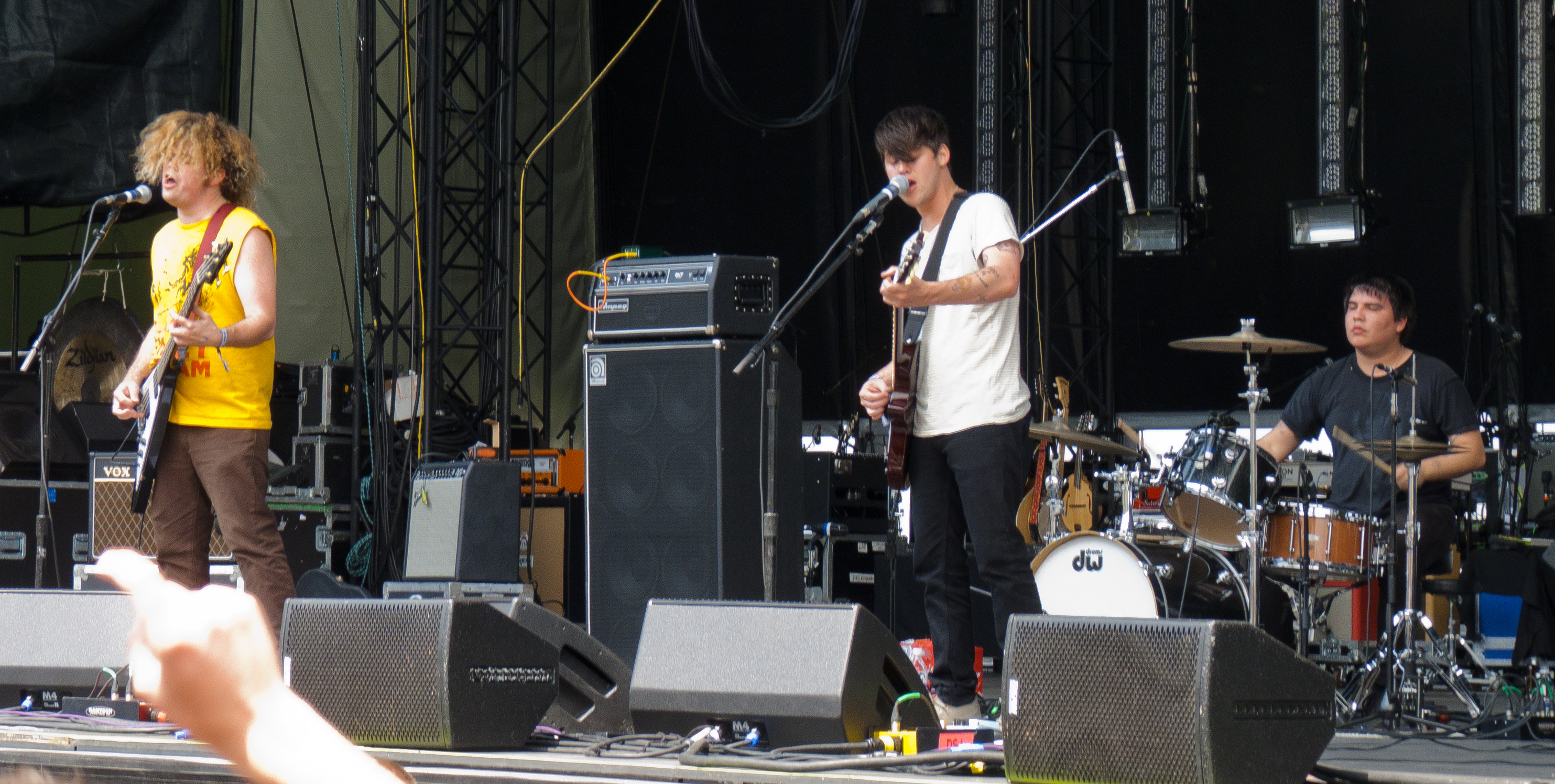 Wavves playing at Sasquatch 2011